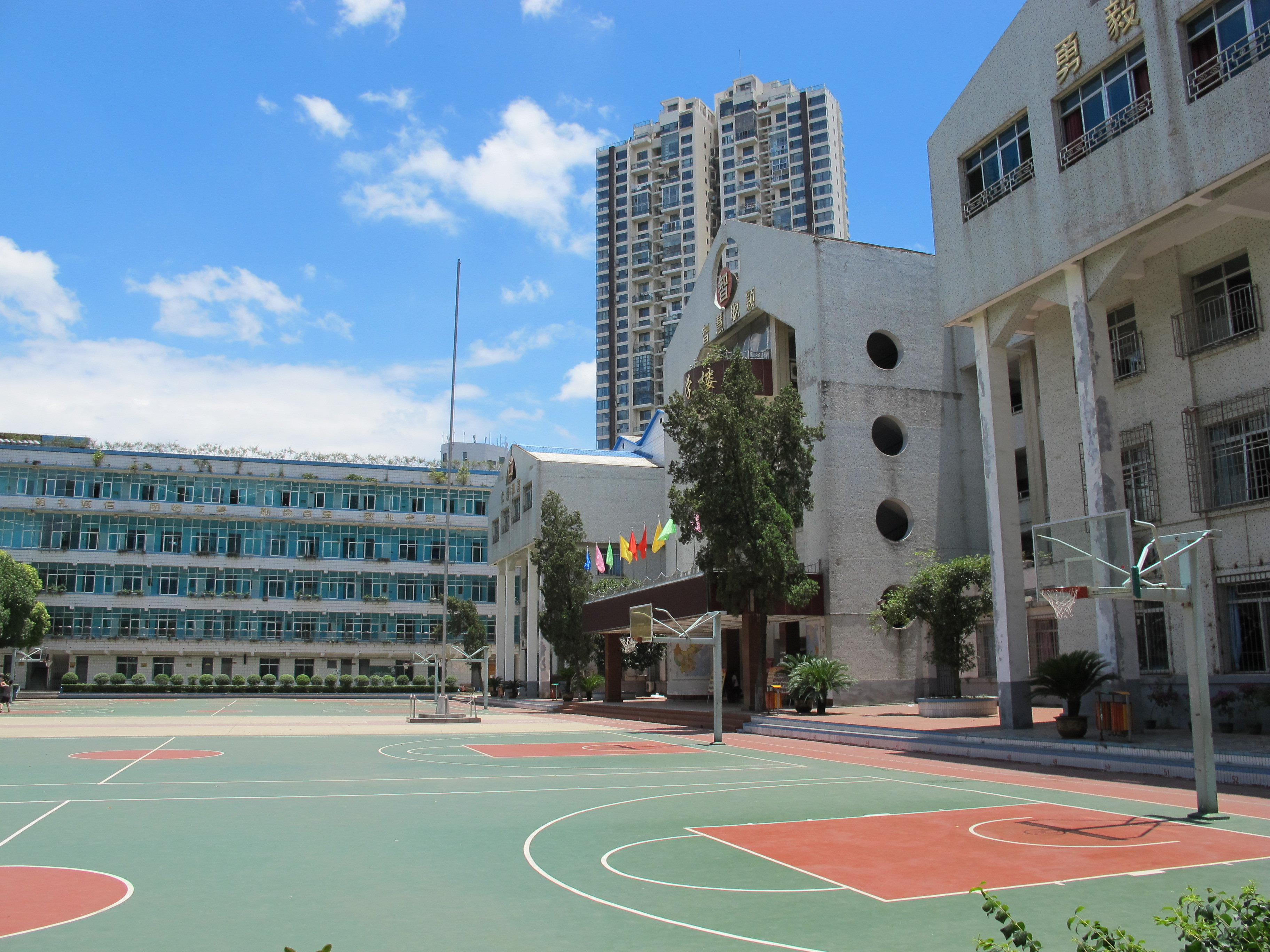 Playground of the High School Affiliated to Guizhou Normal University(main campus)